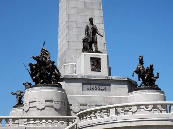 Closeup image of Lincoln Tomb in Springfield, Illinois. This is a closer image of the statues that adorn the terrace above the entrance.